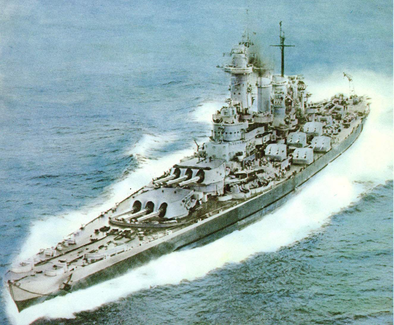 "Running post-overhaul trials in Puget Sound, Washington, on 10 September 1945."